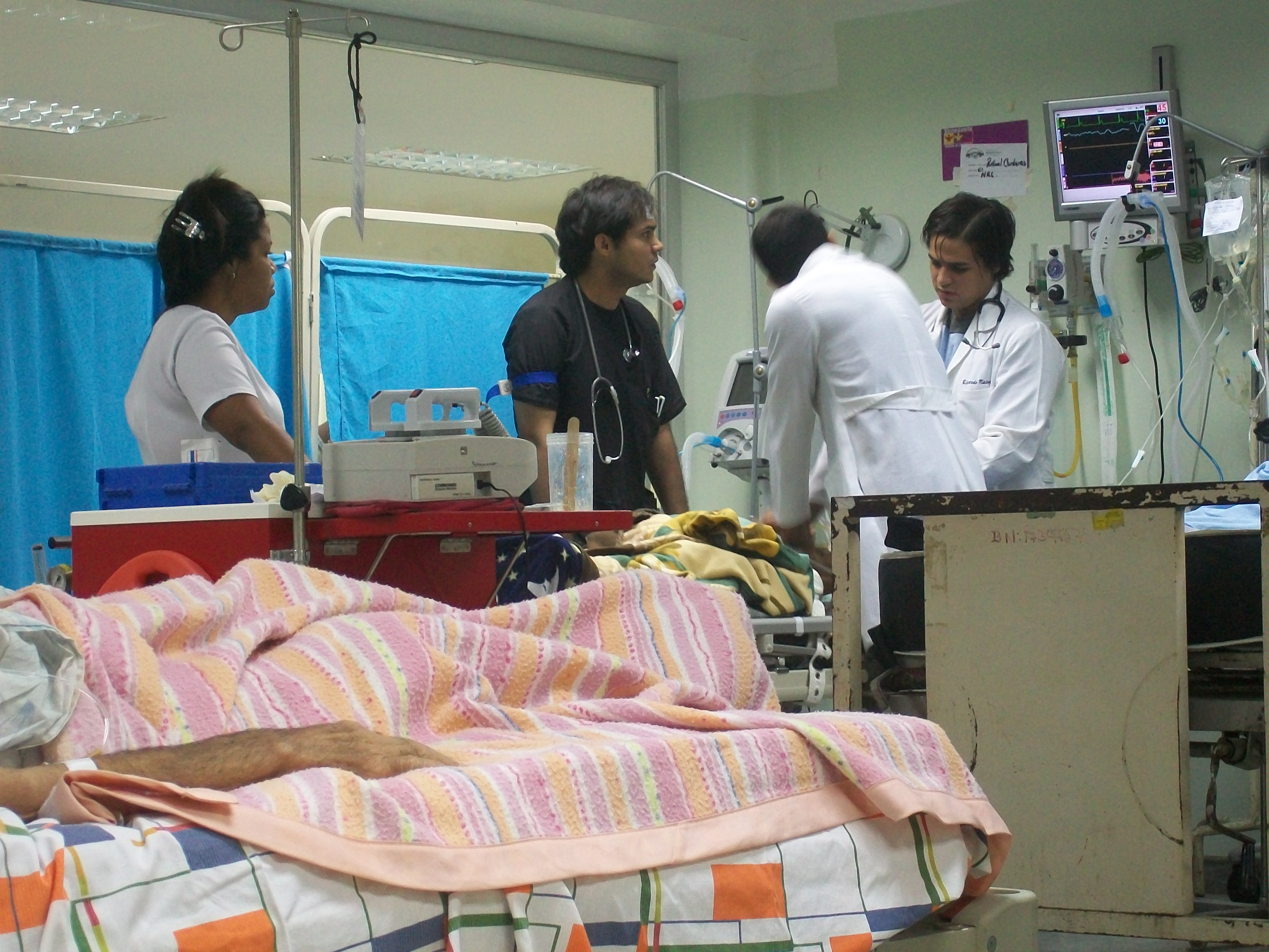 Cardipulmonary resucitation performed in an intrahospital setting, Maracay, Venezuela.